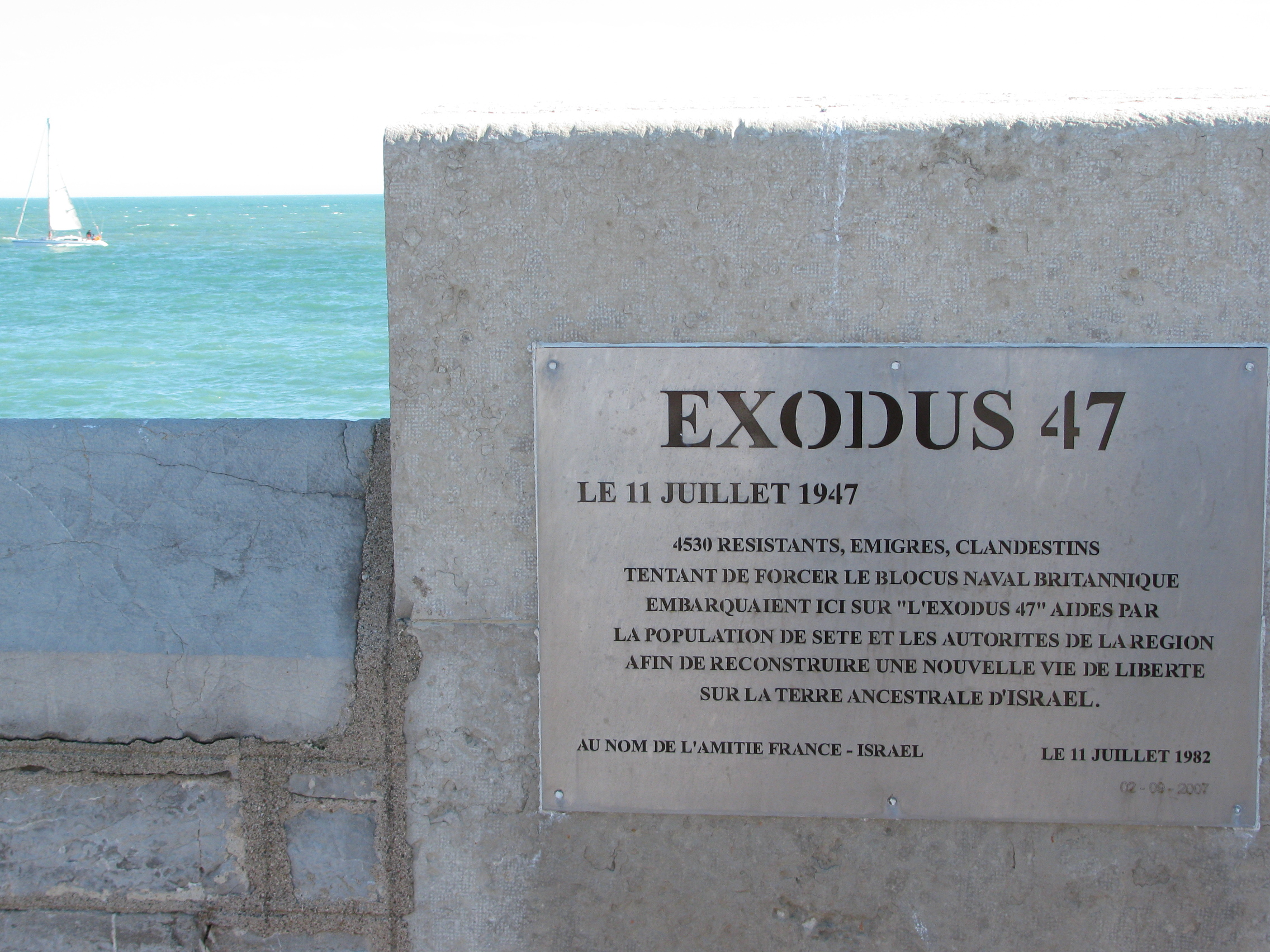 a memorial for the ship "Exodus" in the harbor of Sète, France.